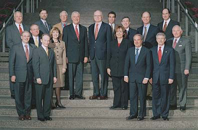 The United States Commission on Ocean Policy - (l-r) front row: Professor Marc J. Hershman; Dr. Thomas R. Kitsos (Executive Director); Mr. Ted A. Beattie; and Dr. Paul A. Sandifer. Second row: Mr. Lawrence Dickerson; Mrs. Lillian Borrone; Ms. Ann D'Amato; and Mr. Paul L. Kelly. Back row: Mr. Christopher Koch; Mr. Edward B. Rasmuson; Dr. James M. Coleman; Admiral James D. Watkins, USN (Ret.) (Chairman); Mr. William D. Ruckelshaus; Dr. Andrew A. Rosenberg; Vice Admiral Paul G. Gaffney II, USN (Ret.); Dr. Robert Ballard; and Dr. Frank Muller-Karger.